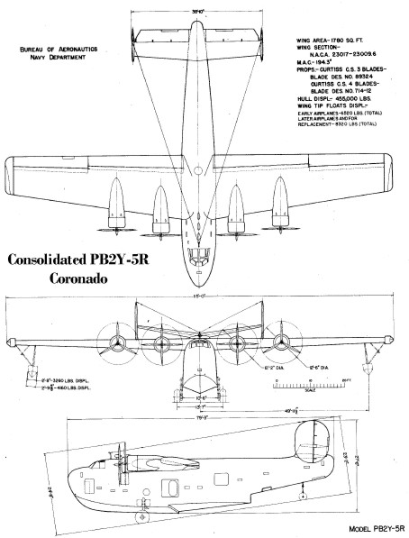 3-side-view of a Consolidated PB2Y-5R Coronado